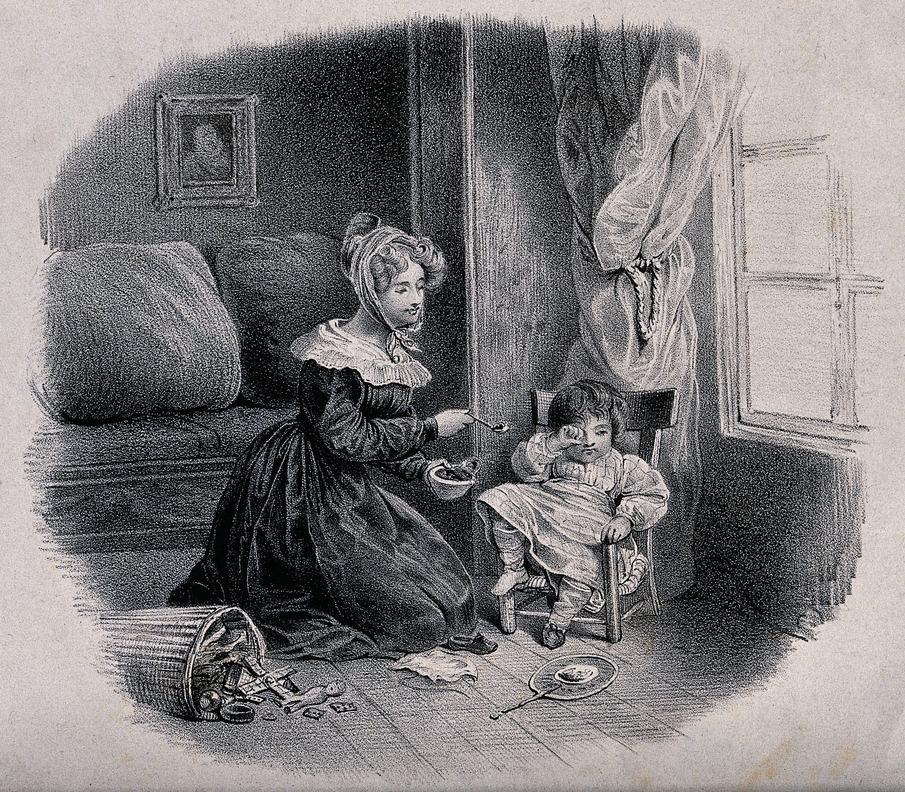 A child has upset a toy basket and she is refusing to eat the food being offered to her. Lithograph. Iconographic Collections